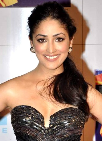 Yami Gautam at Zee Cine Awards 2013